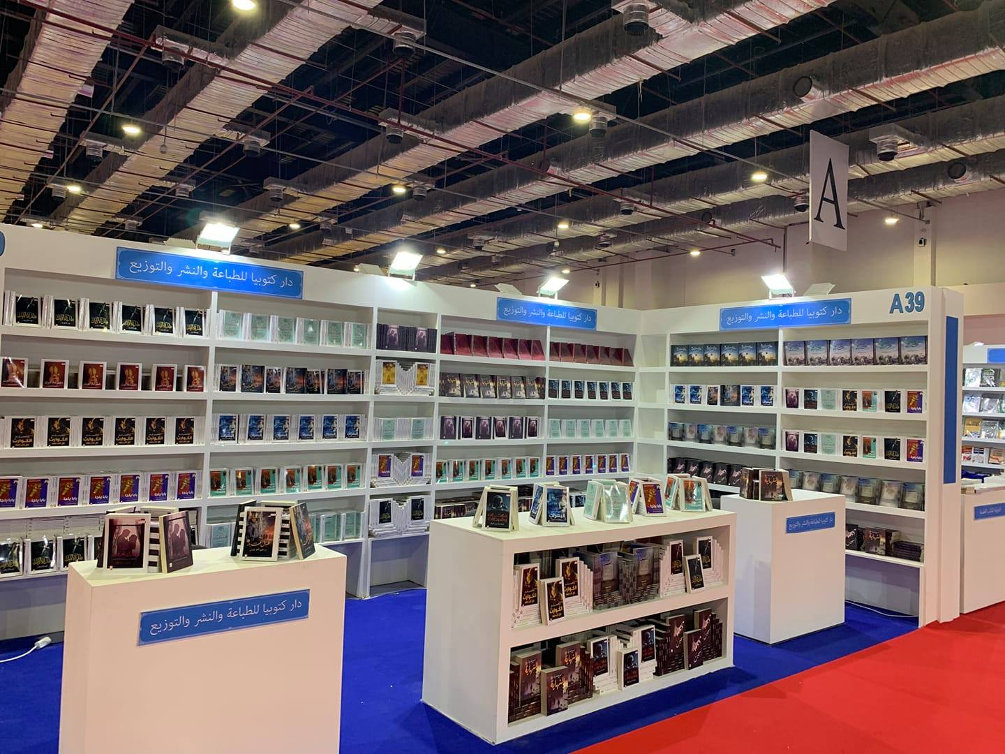 CIBG Booth - Kotopia